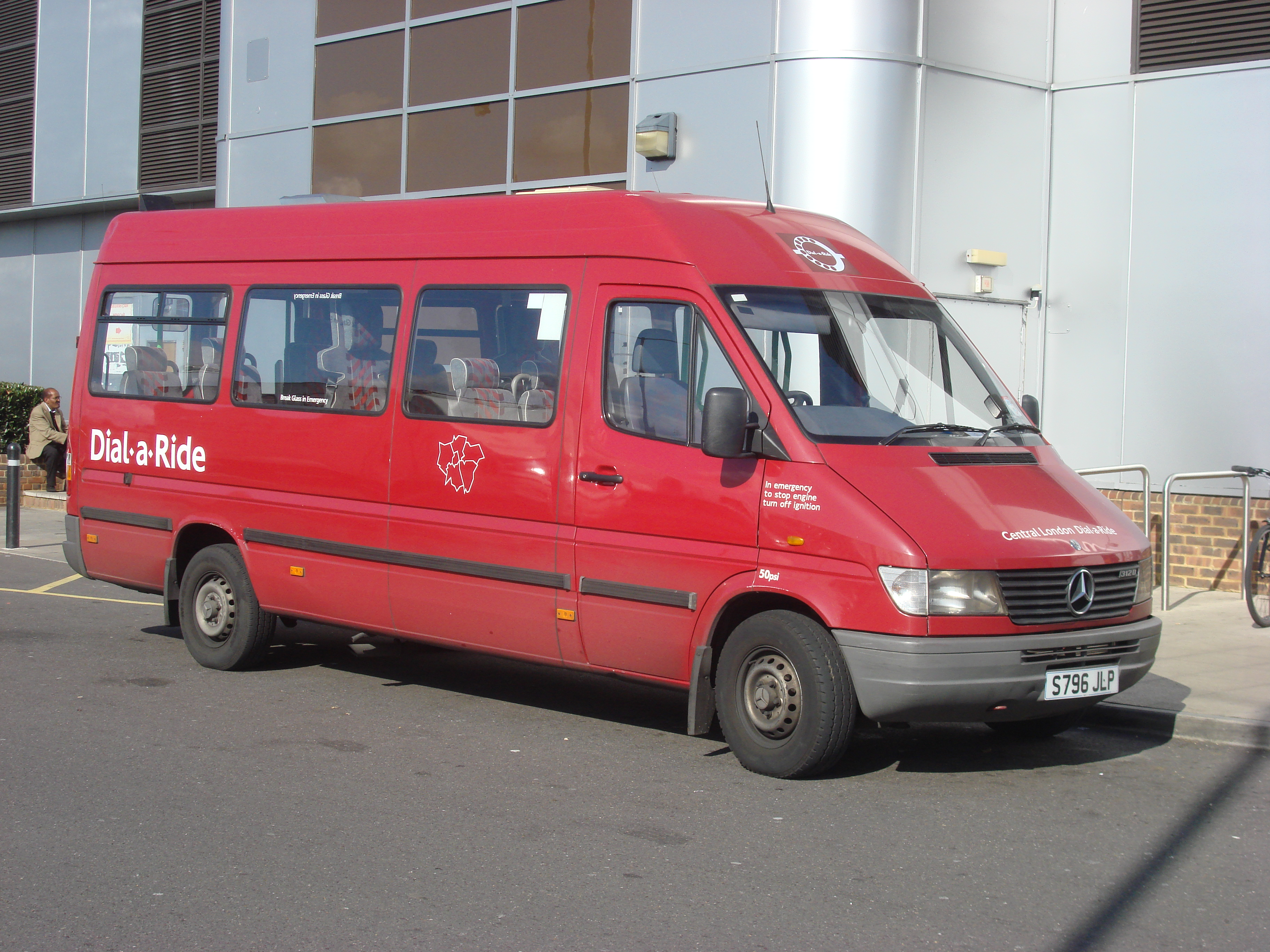 London Dial-a-Ride's D27 (S796 JLP), a Mercedes-Benz Sprinter minibus at Ladbroke Grove Sainsbury's.